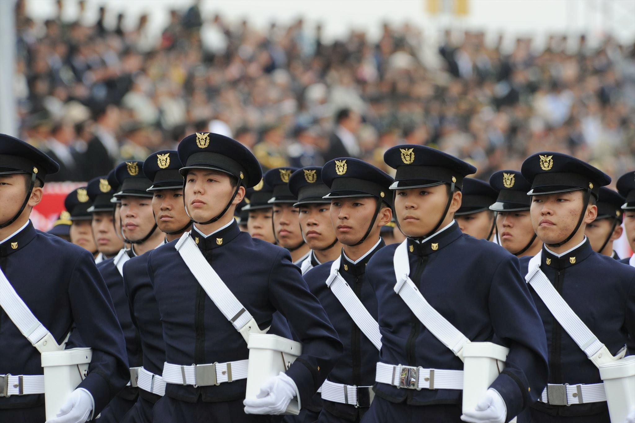 Title 11_04_010_R.JPG Album 自衛隊記念日 観閲式(Parade of Self-Defense Force) 平成22年度自衛隊記念日 観閲式(Parade of Self-Defense Force)